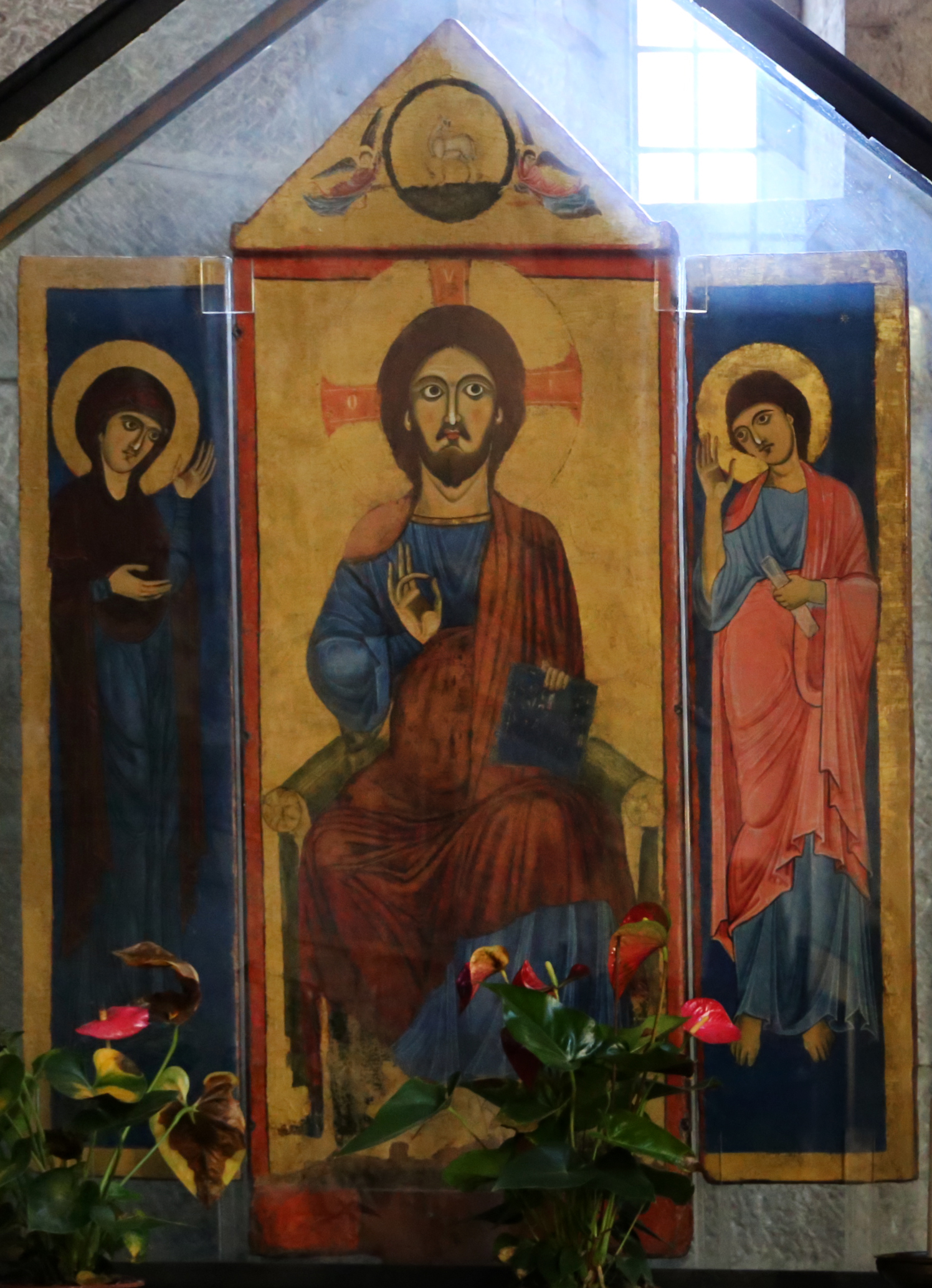 Santa Maria Nuova (Viterbo)